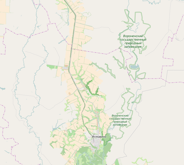 Voroninsky Nature Reserve (boundaries in darker green). Tambov Oblast, European Russia